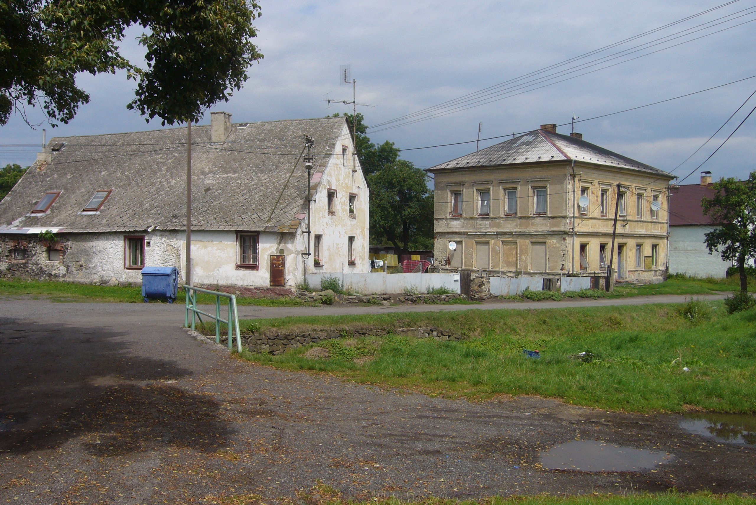 Kadaňský Rohozec with the former school building on the left